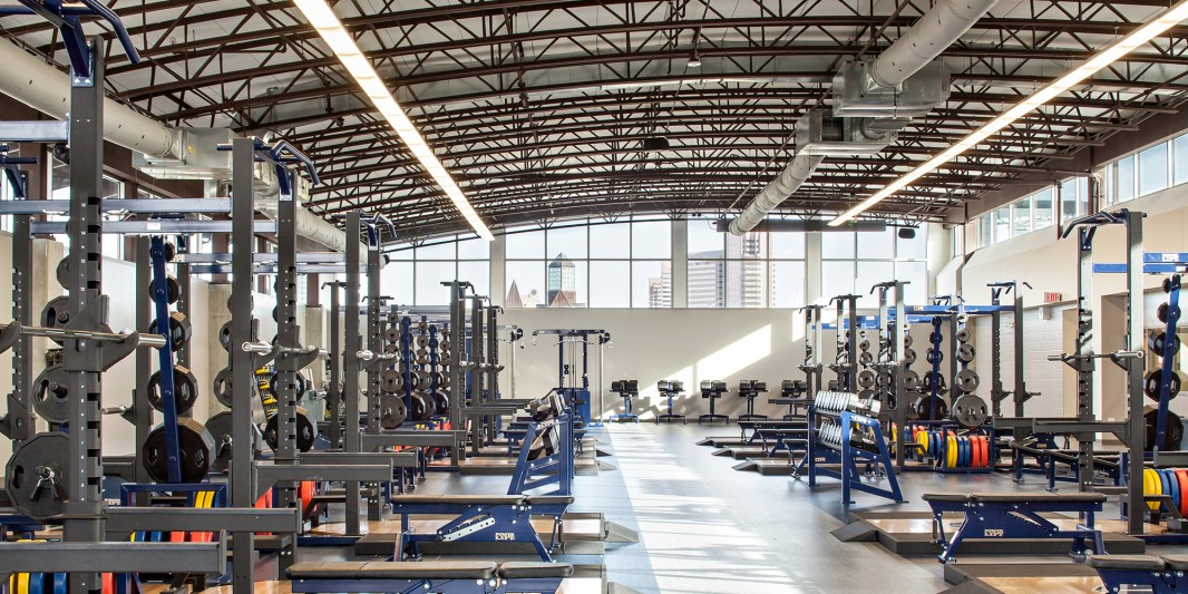 Dallas Jesuit Ranger Performance Center Weight Room